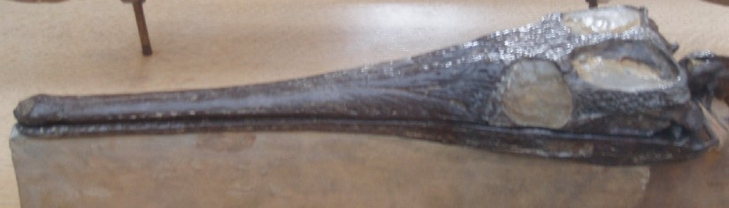 Skull of Pelagosaurus typus, an early Jurassic crocodile.